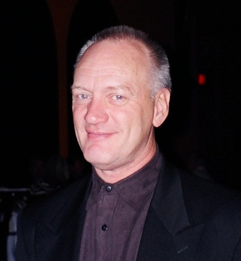 This picture was taken in Stratford, Ontario in 2004.